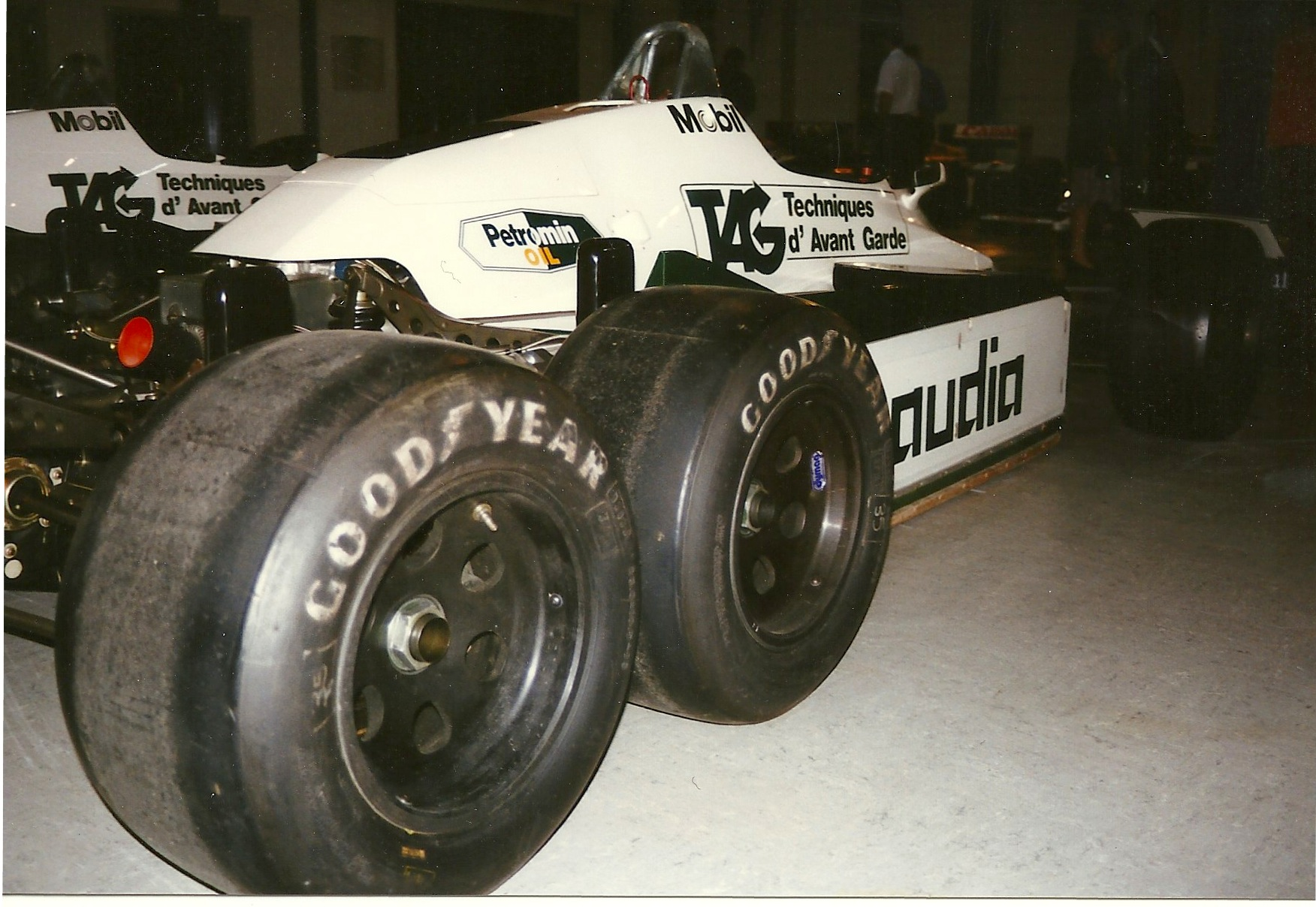 A trip to the Williams factory and museum, c. 1991